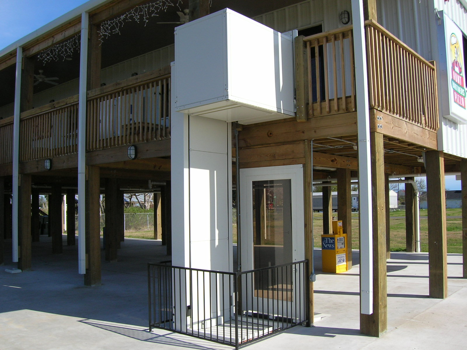 Wheelchair elevator located outdoors.